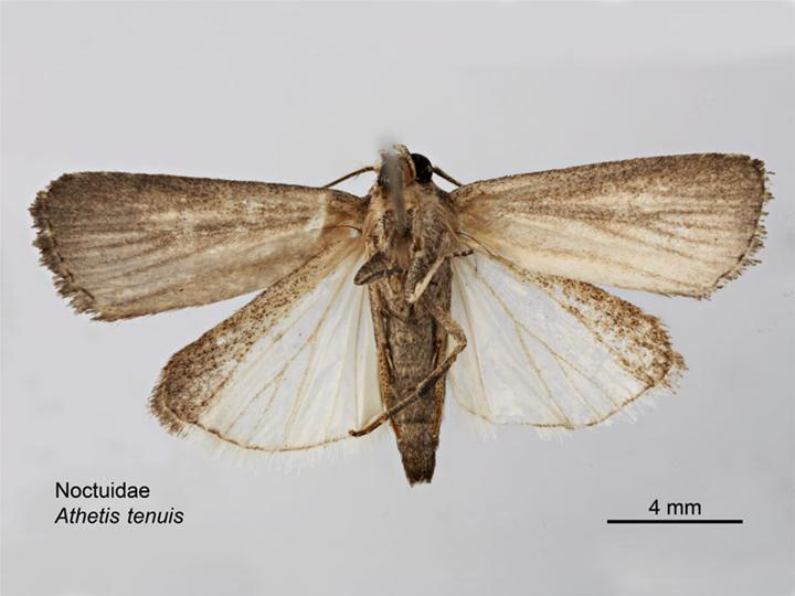 Athetis tenuis, ventral view. Site LTR1: Western Australia: Barrow Island March 2006 S. Callan R. Graham. Det P. Marriott 2009.